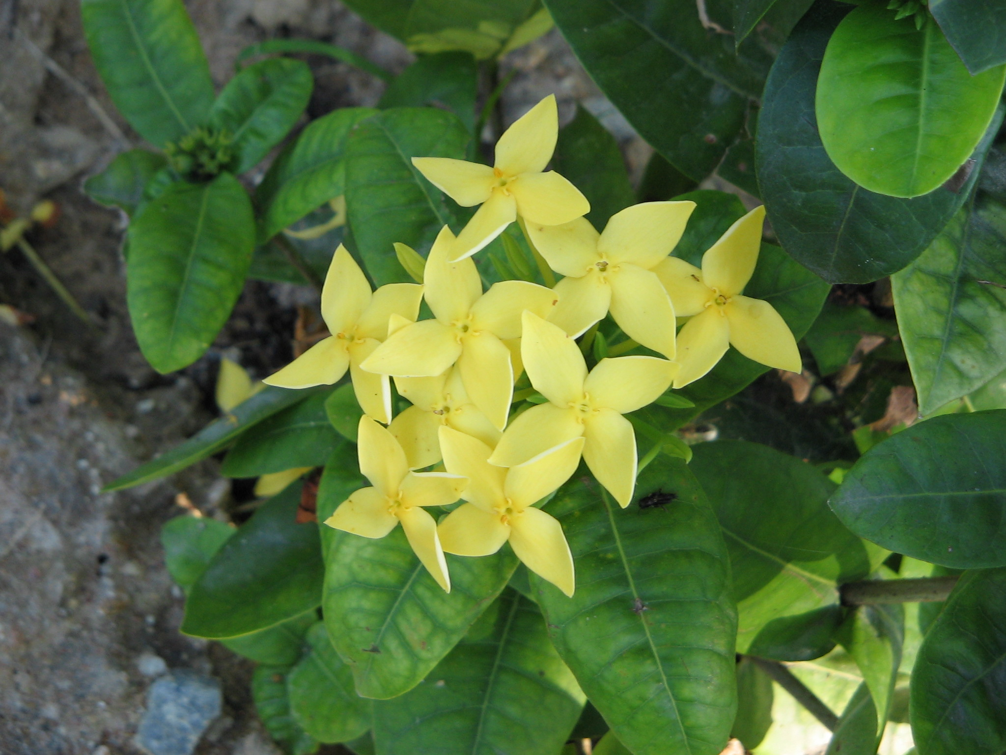 Ixora siamensis